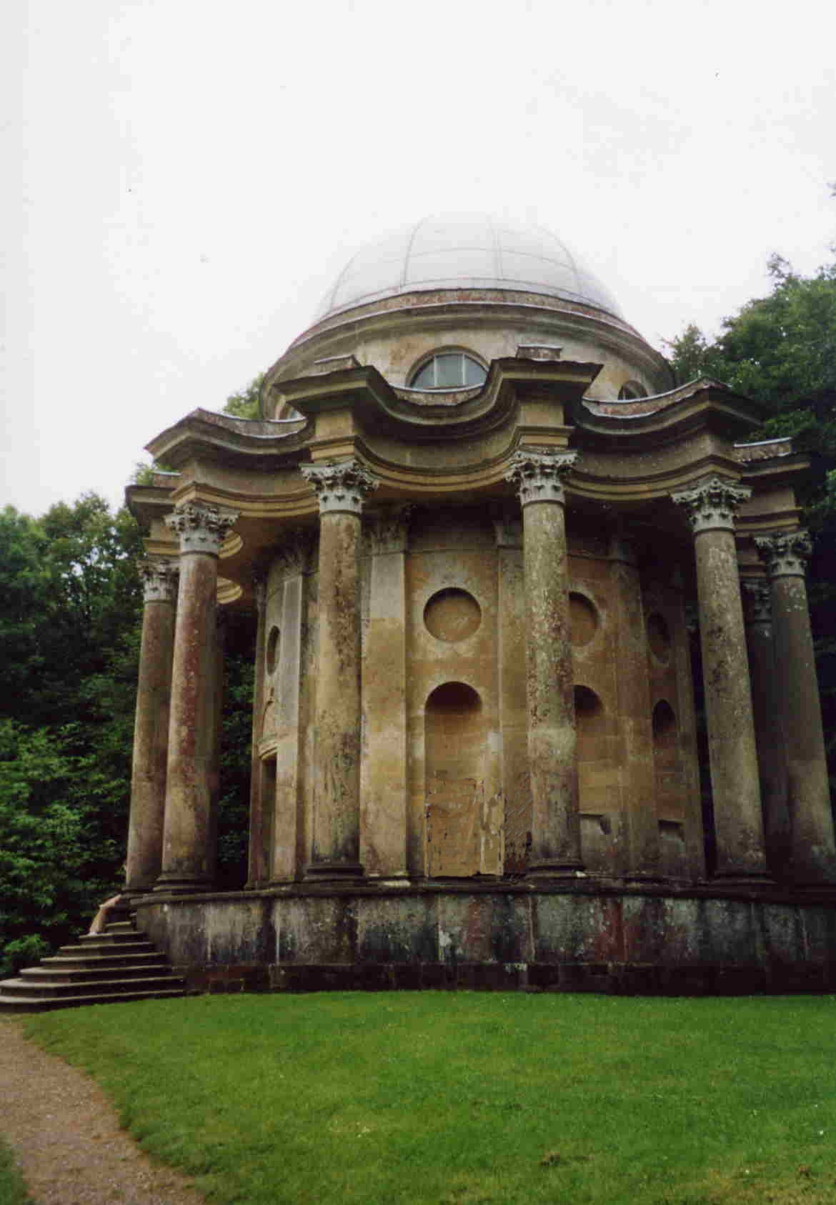 Temple of Apollo at Stourhead: Image photographed and owned by uploader